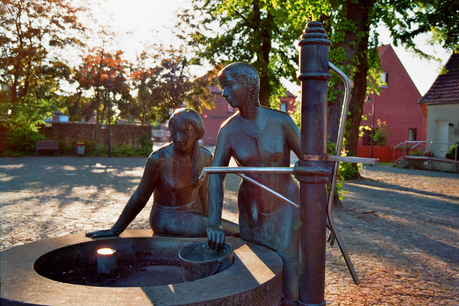 Sculpture group Brunnengeflüster - Dorfbrunnen, a work of Anne Daubenspeck-Focke (1991), in Saerbeck, Kreis Steinfurt, North Rhine-Westphalia, Germany.